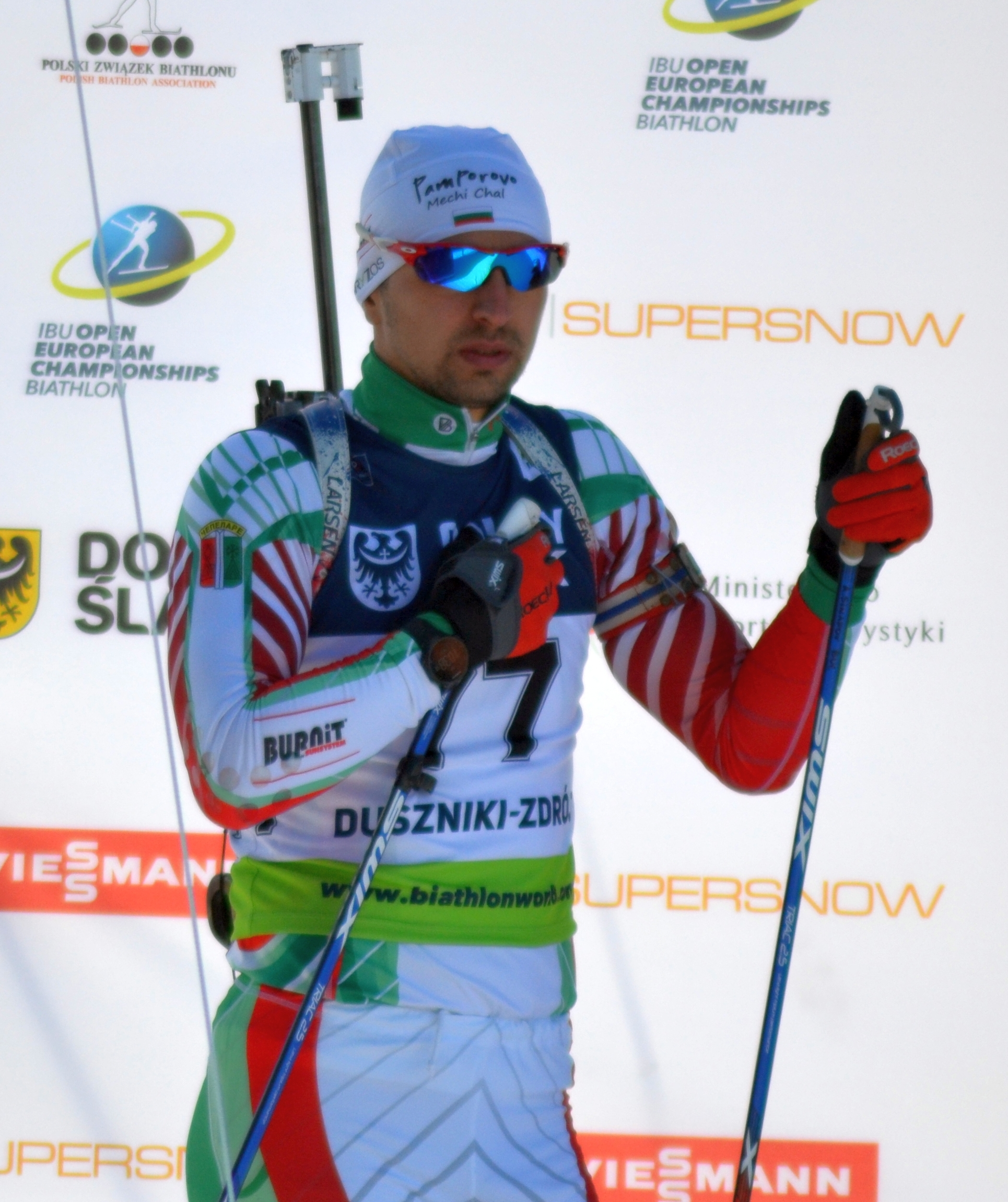 Open European Championships Biathlon 2017, Sprint Men's race, held on January 27th.